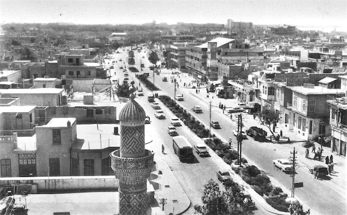 Al-Sa’dun Street, Battawiyin, Baghdad, 1950s